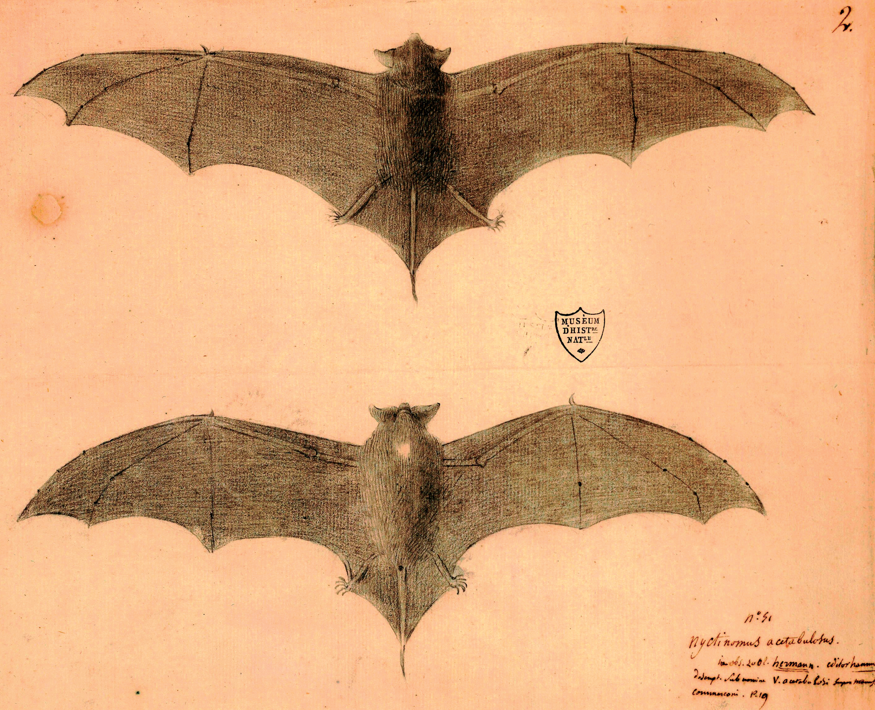 Holotype illustration of Mormopterus acetabulosus. Done on Mauritius.